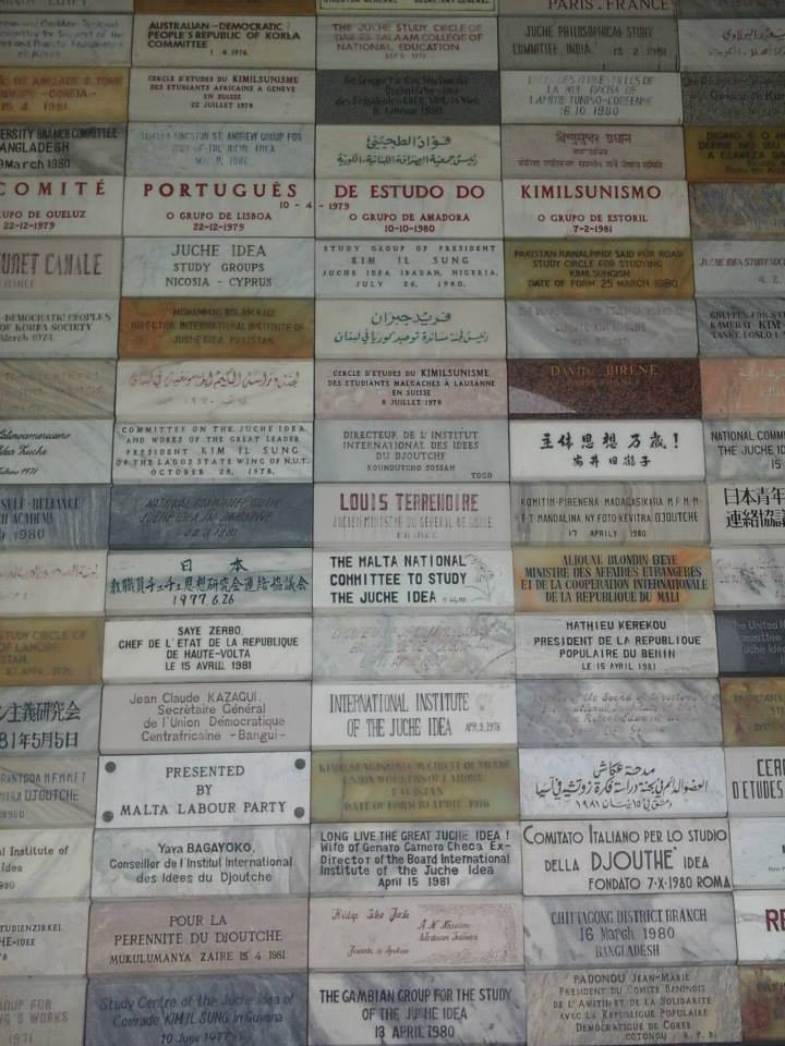 Entrance of Juche Tower, North Korea. The entrance hall contains a number of plaques from various socialist movements throughout the world paying tribute to the Juche idea.